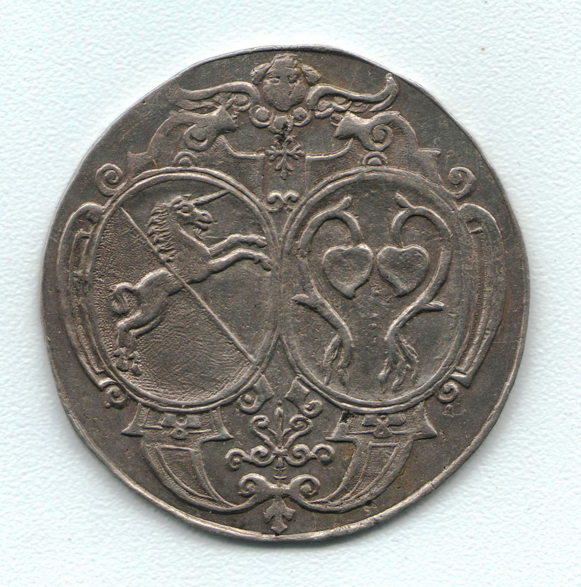 Březnice church foundation medal 1638.